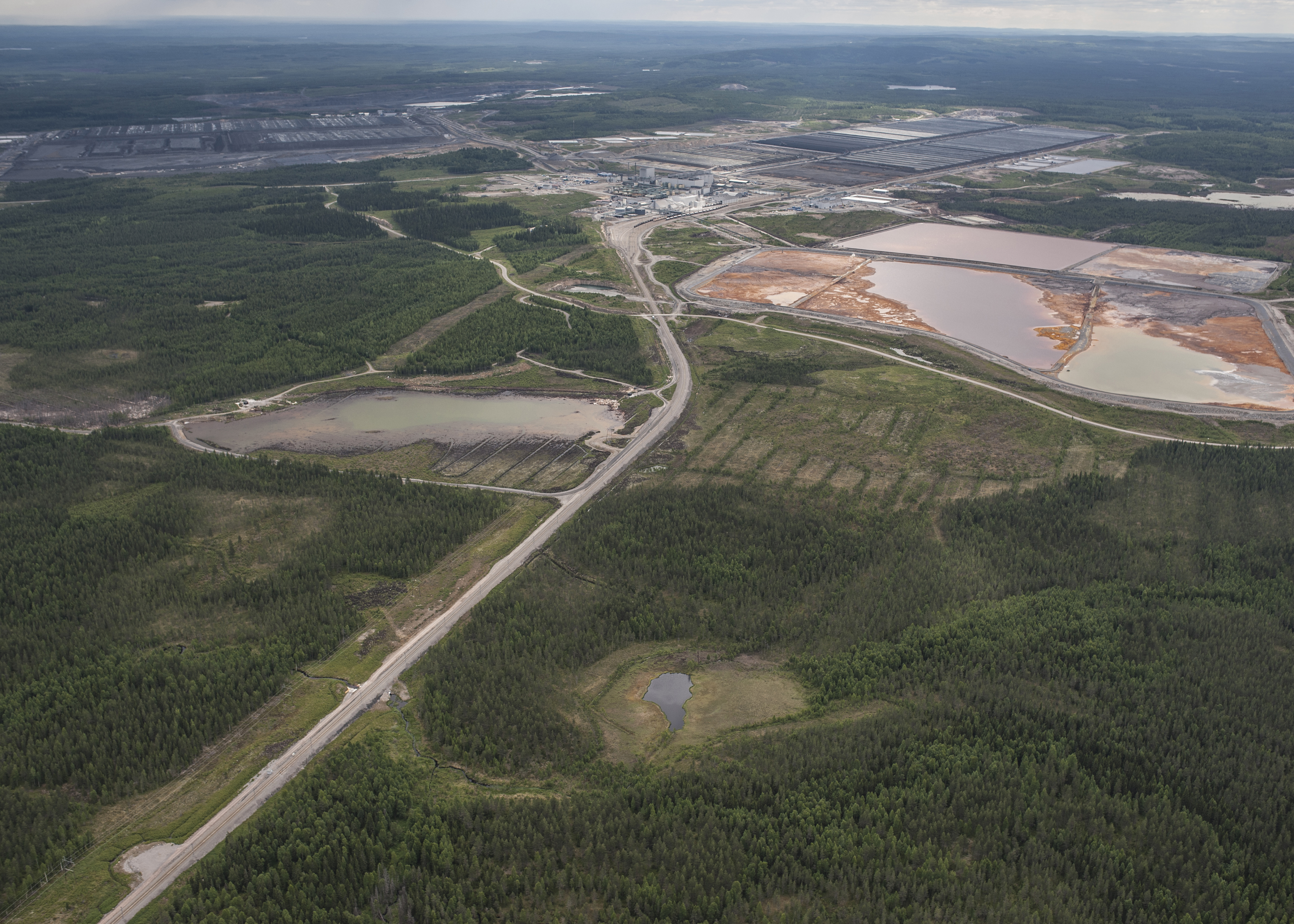 Aerial photograph of Talvivaara mine in Sotkamo, Finland. June 2013.